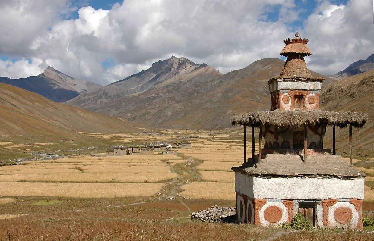 Chorten in Dolpo's valley Do Tarap with barley fields, the staple diet of people living in this harsh environment at 4'000 meters above sea level.